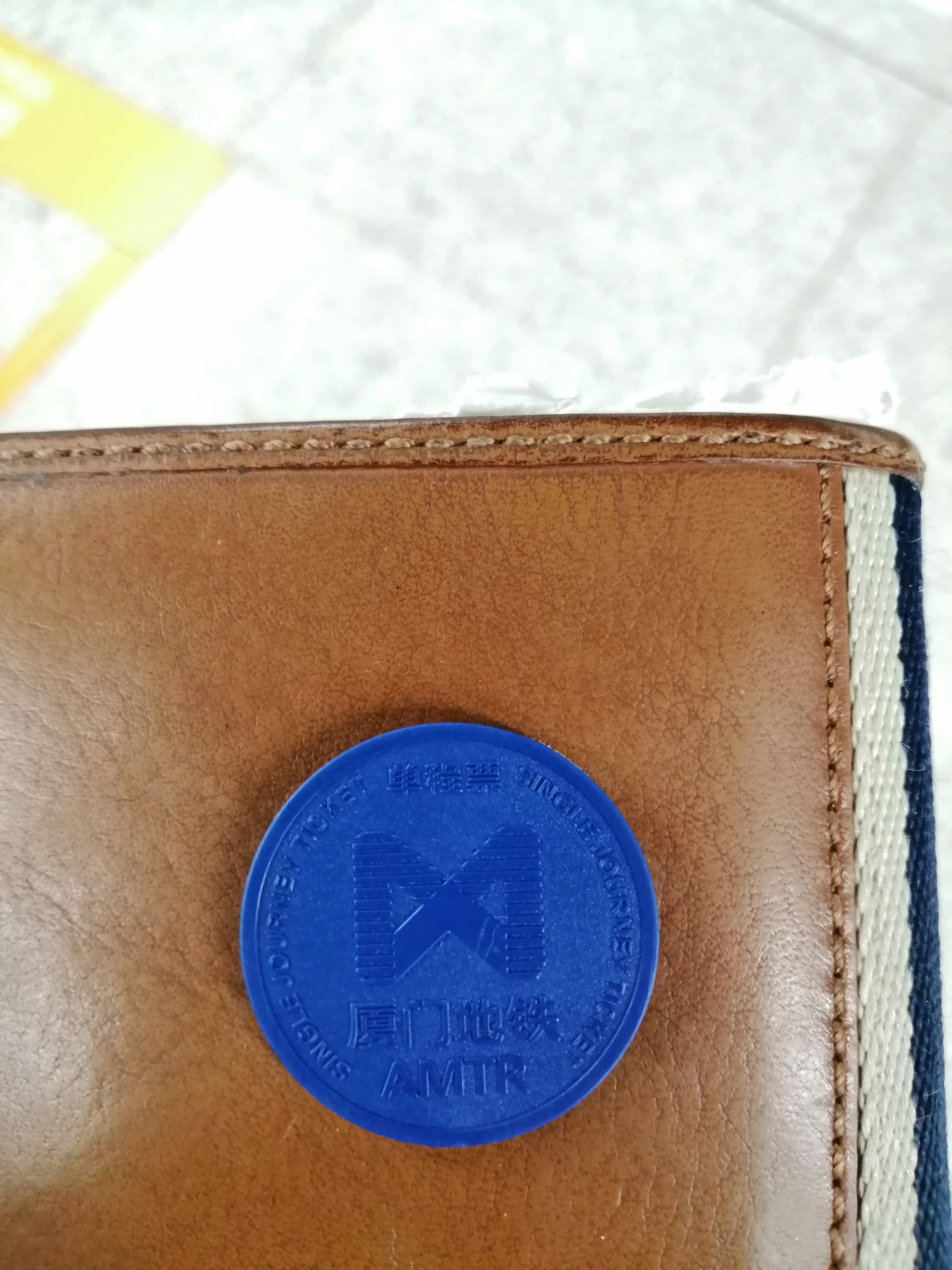 Single Journey Ticket of Xiamen Metro, which is similar to Nanjing, Guangzhou, Shenzhen and Taipei. 中文（中国大陆）: 厦门地铁单程票，使用代币式设计，与南京、广州、深圳和台北相似。